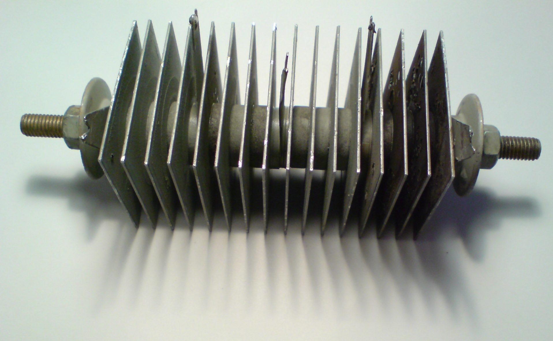 Selene rectifier type B100/80-3.2X (Siemens)